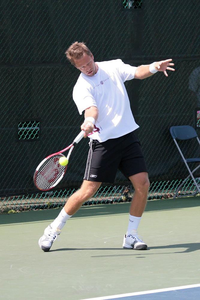 Robert Lindstedt ATP Tennis Professional 2006 Western & Southern Financial Group Masters Cincinnati, Ohio This photo is available for sale as a print or high resolution digital download. Click here for more information.